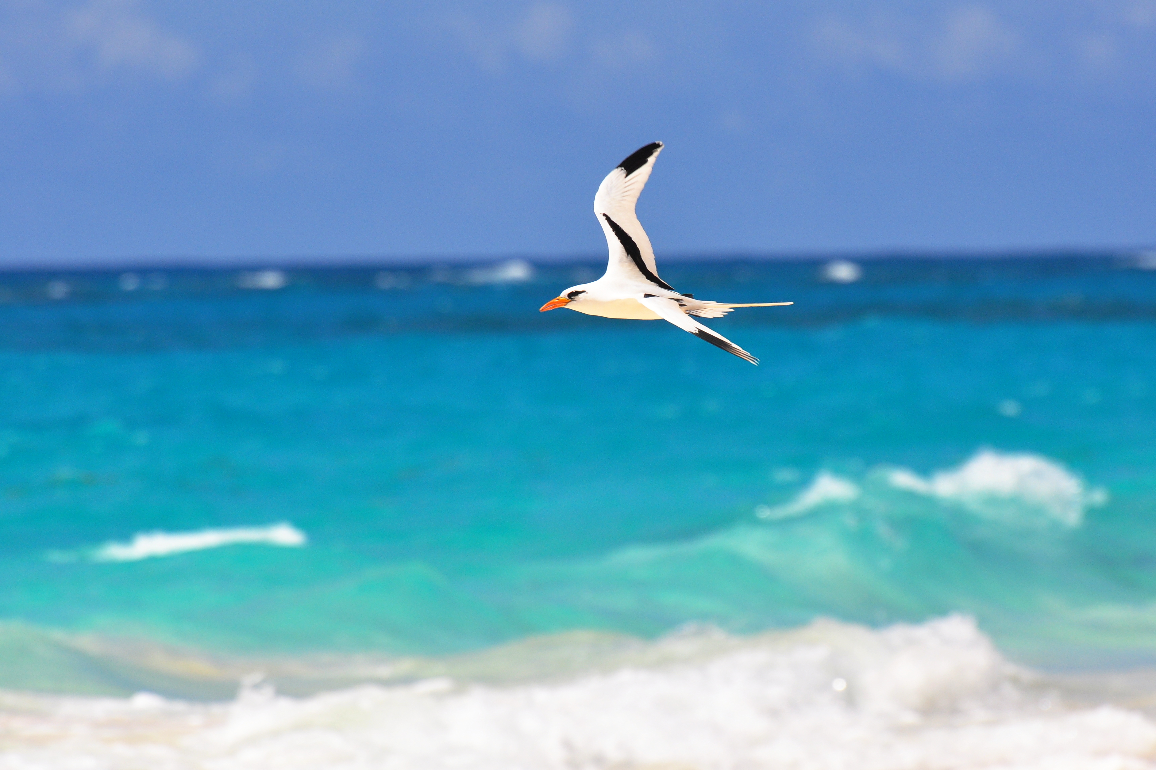 A White-tailed Tropicbird (Phaethon lepturus) in Warwick Parish, Bermuda.